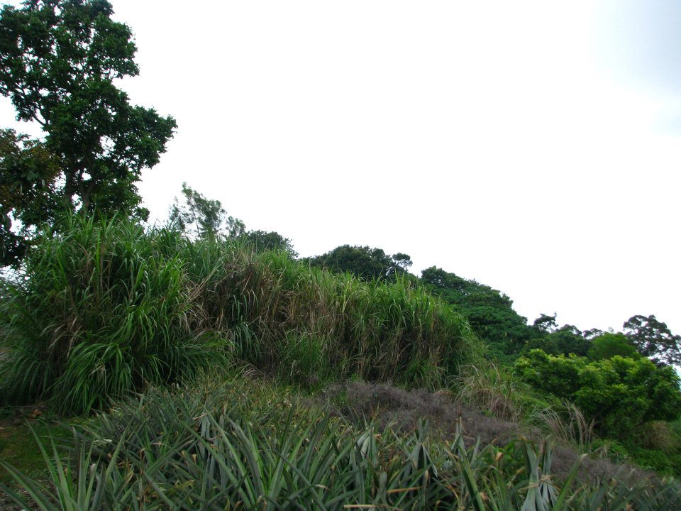 A hill in Taichung, Taiwan.